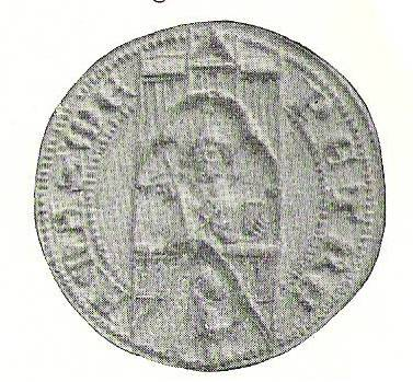 Photograph of signet found on the outskirts of Convent of Nysted. The signet exist today at the National Museum.